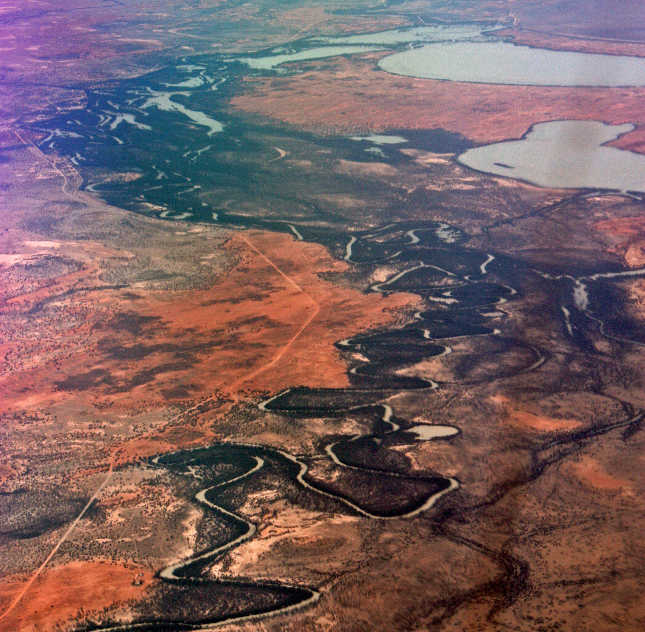 Menindee Lakes in NSW from 16,000ft